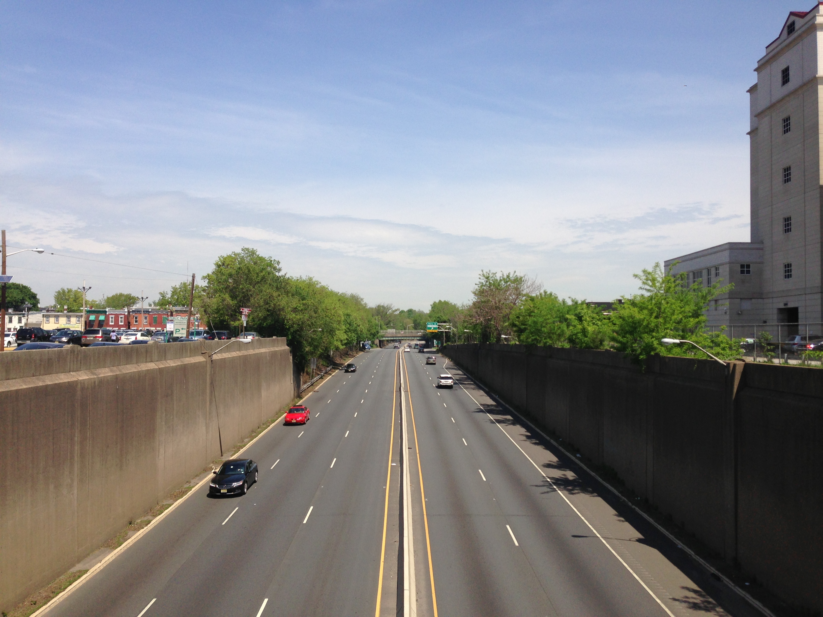 View north along U.S. Route 1 (Trenton Freeway) from the overpass for East State Street in Trenton City, Mercer County, New Jersey